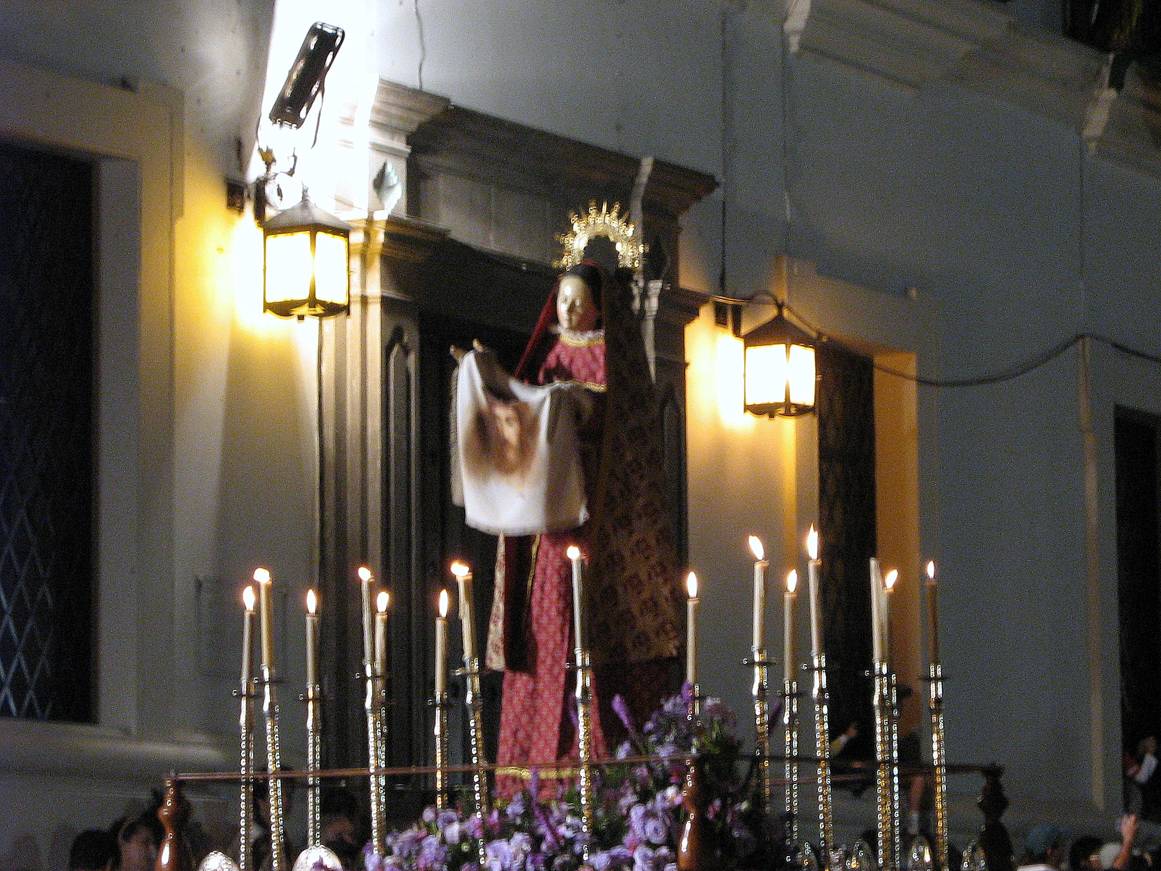 La Verónica, in the Popayán Easter Processions